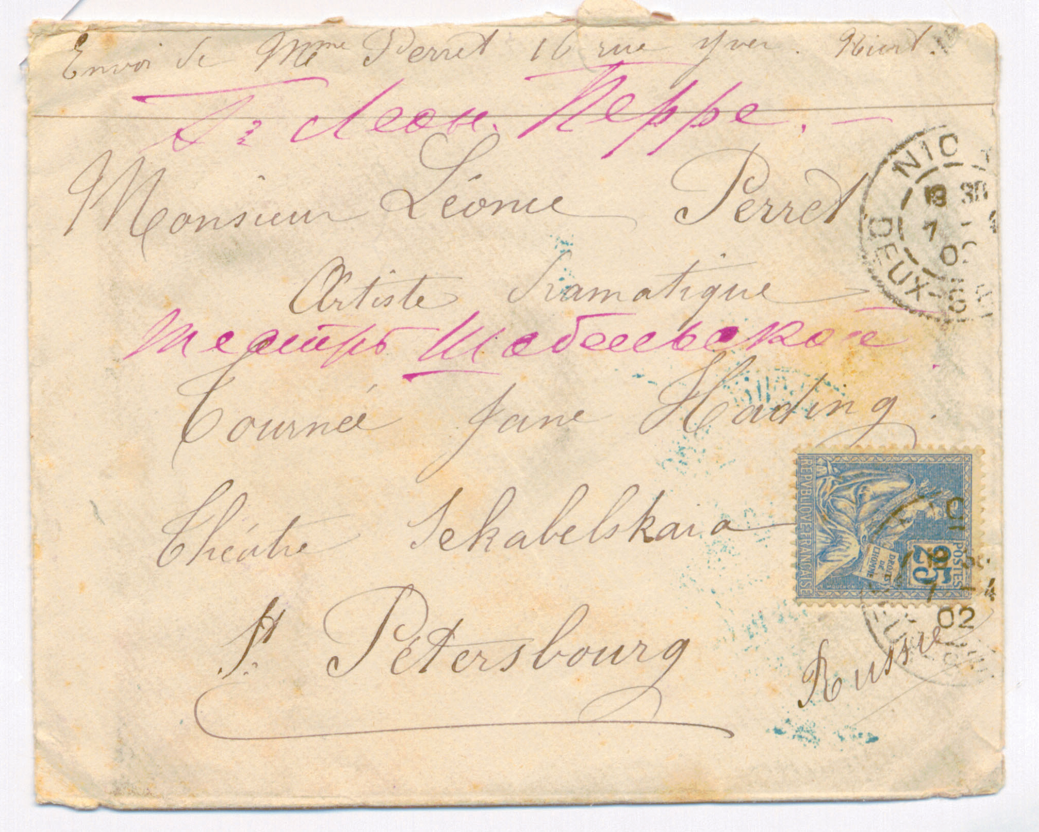 Léonce Perret's photo.